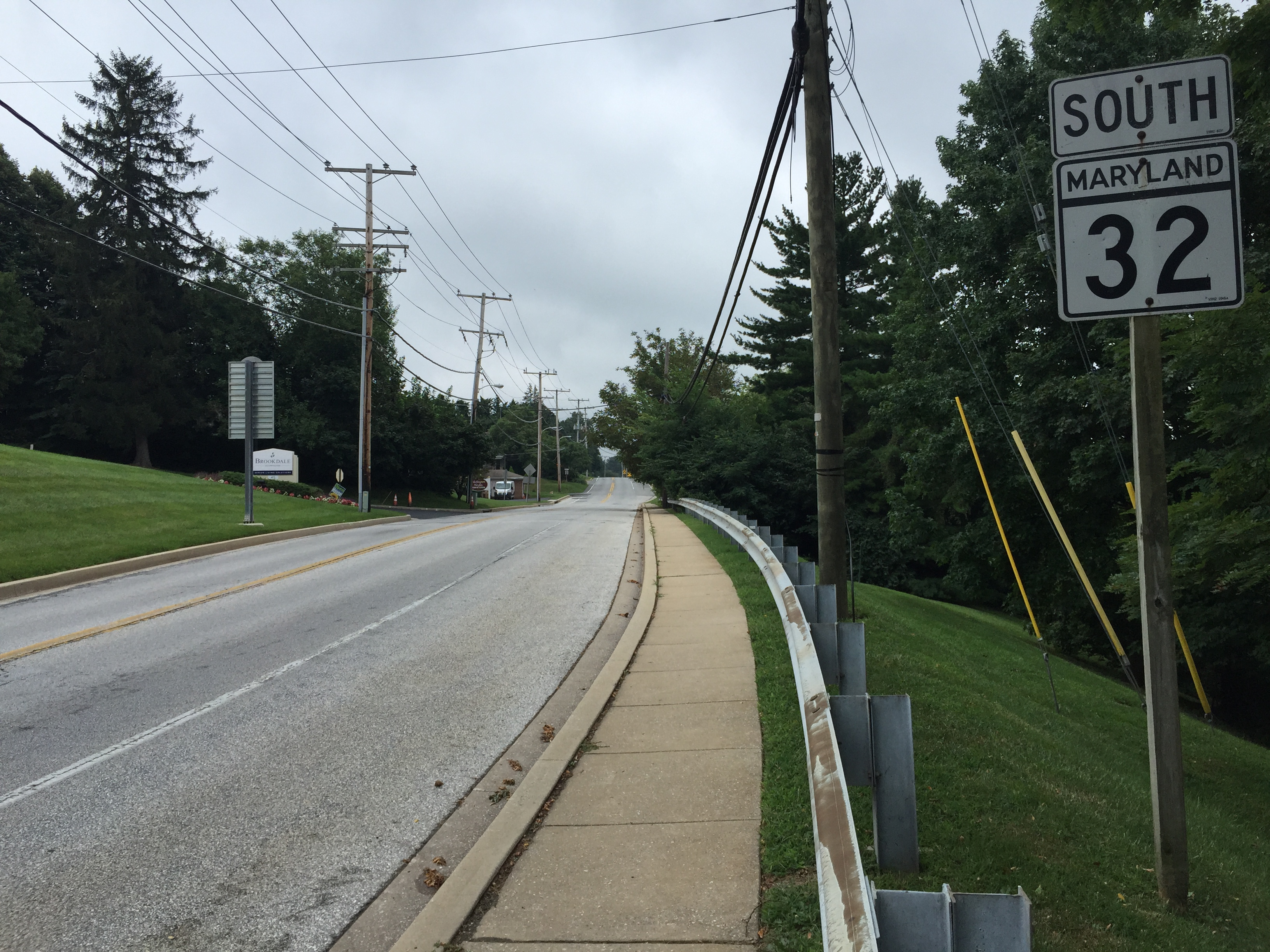 View south along Maryland State Route 32 (Washington Road) at Carroll View Avenue in Westminster, Carroll County, Maryland